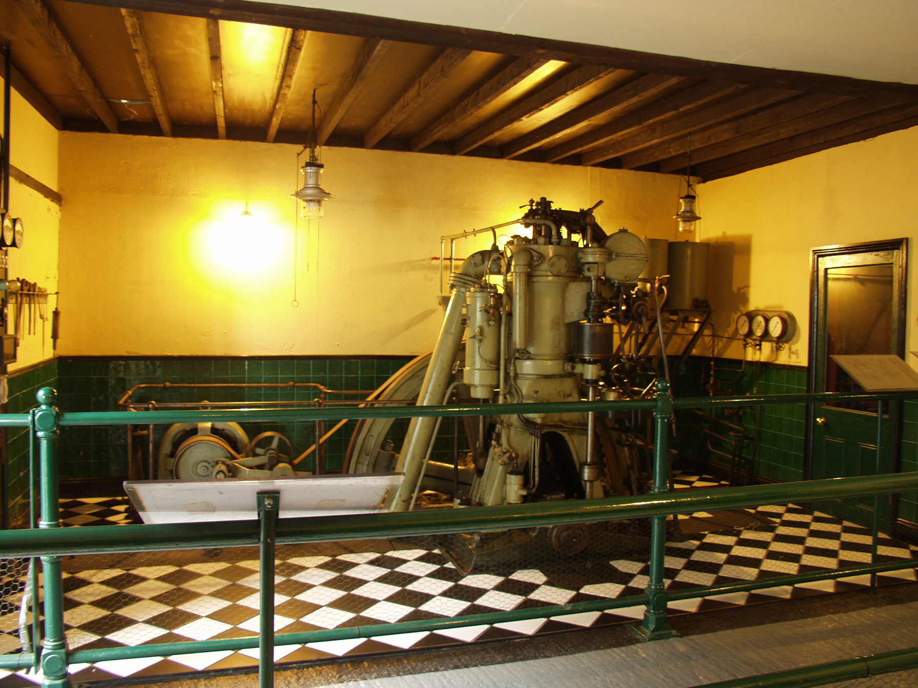 1912 blast injection diesel. At the time of uploading, the oldest working Diesel in the UK